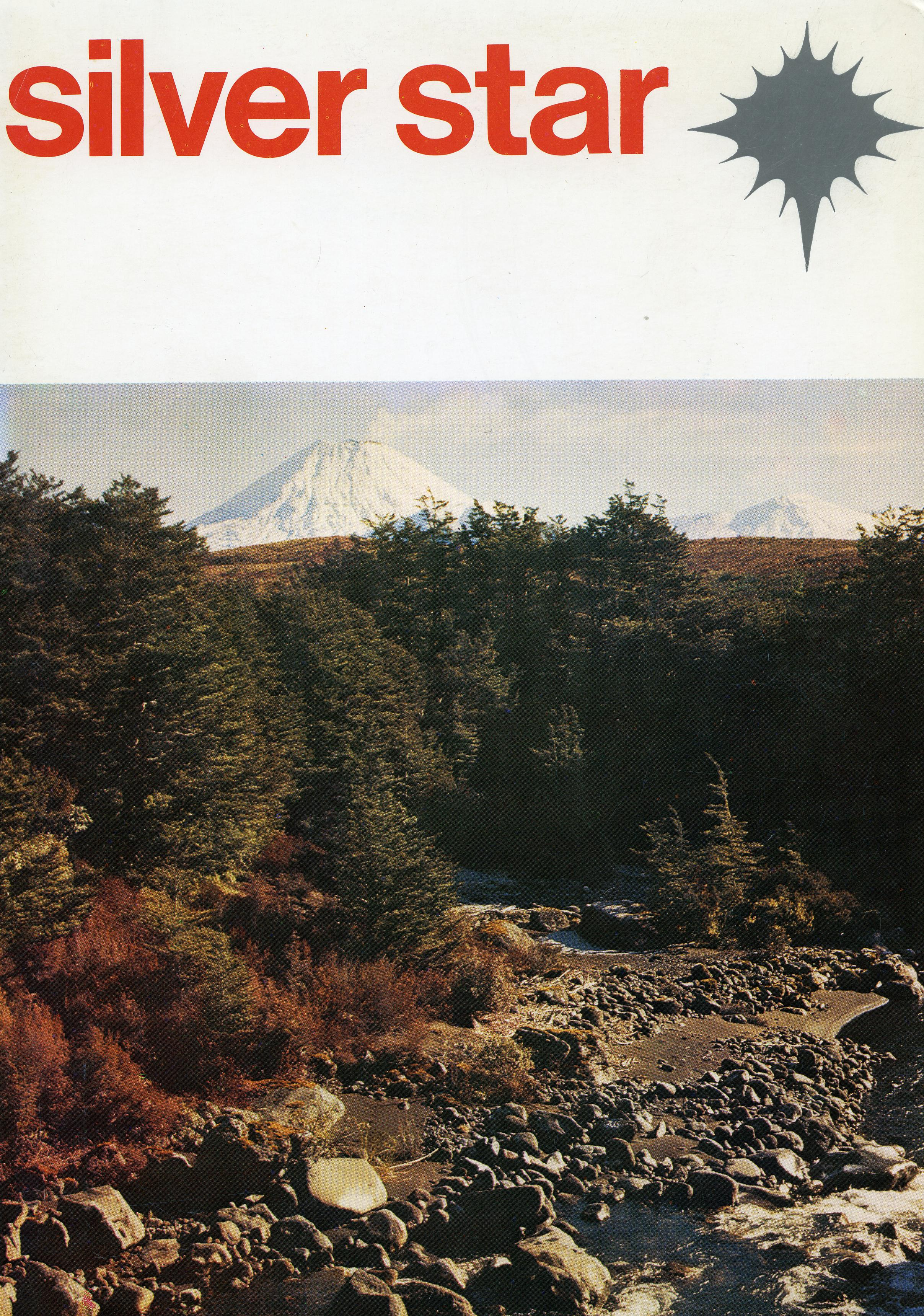 Archives Reference: ABIN W3337 box 136 Image is of the front cover of the food and liquor service on the 'Silver Star' train service which ran as a luxury passenger train running overnight between Auckland and Wellington on the North Island Main Trunk railway of New Zealand. The train ran from Monday, 6 September 1971 until Sunday, 8 June 1979.